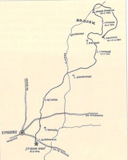 Battles of the Kozjak partisan squad in Kumanovo Region, Macedonia